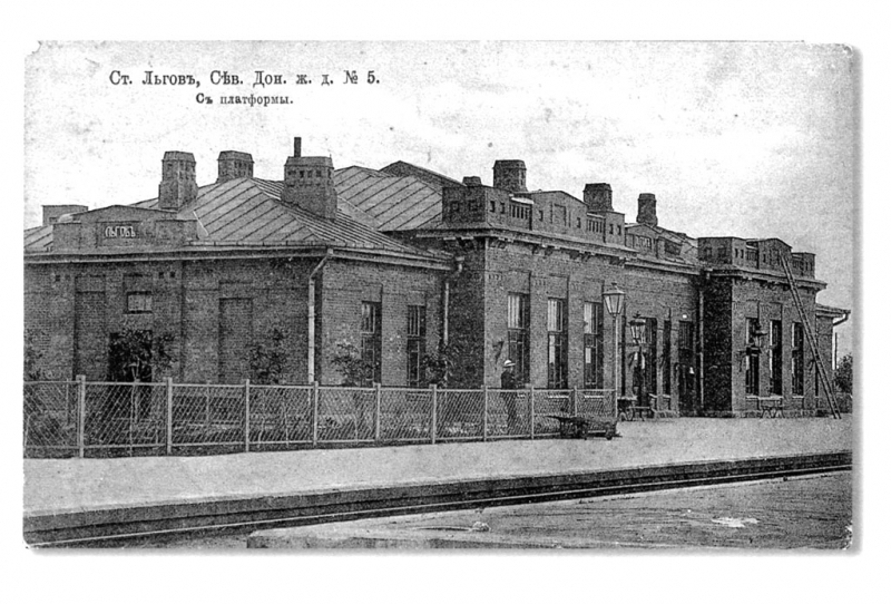 Lgov II Train Station (North Donetsk Railway) in the middle of 1910's. View from railways.